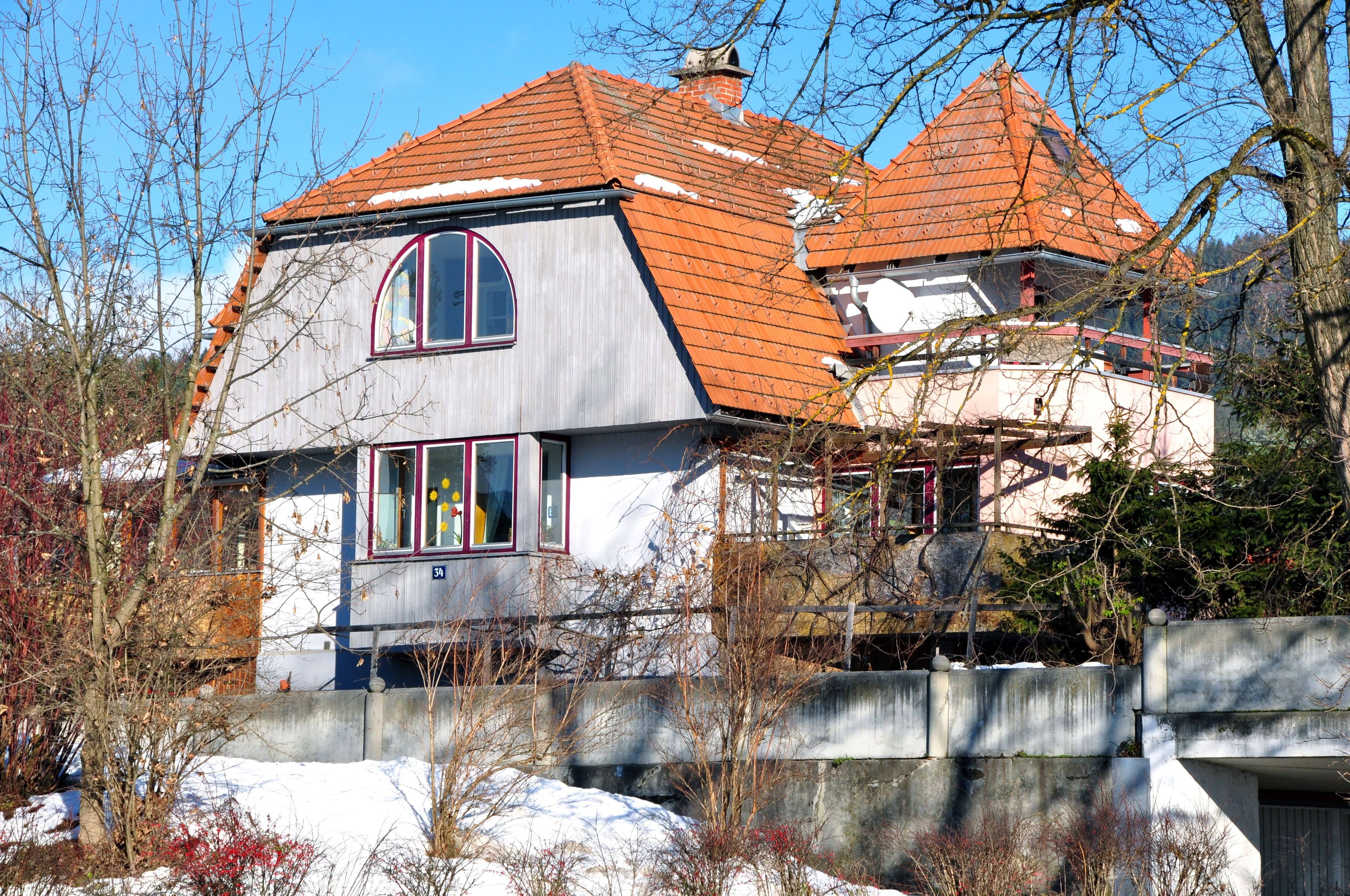 Villa on the Adalbert-Stifter-Strasse #34 in the district Lind of the city Villach, Carinthia, Austria